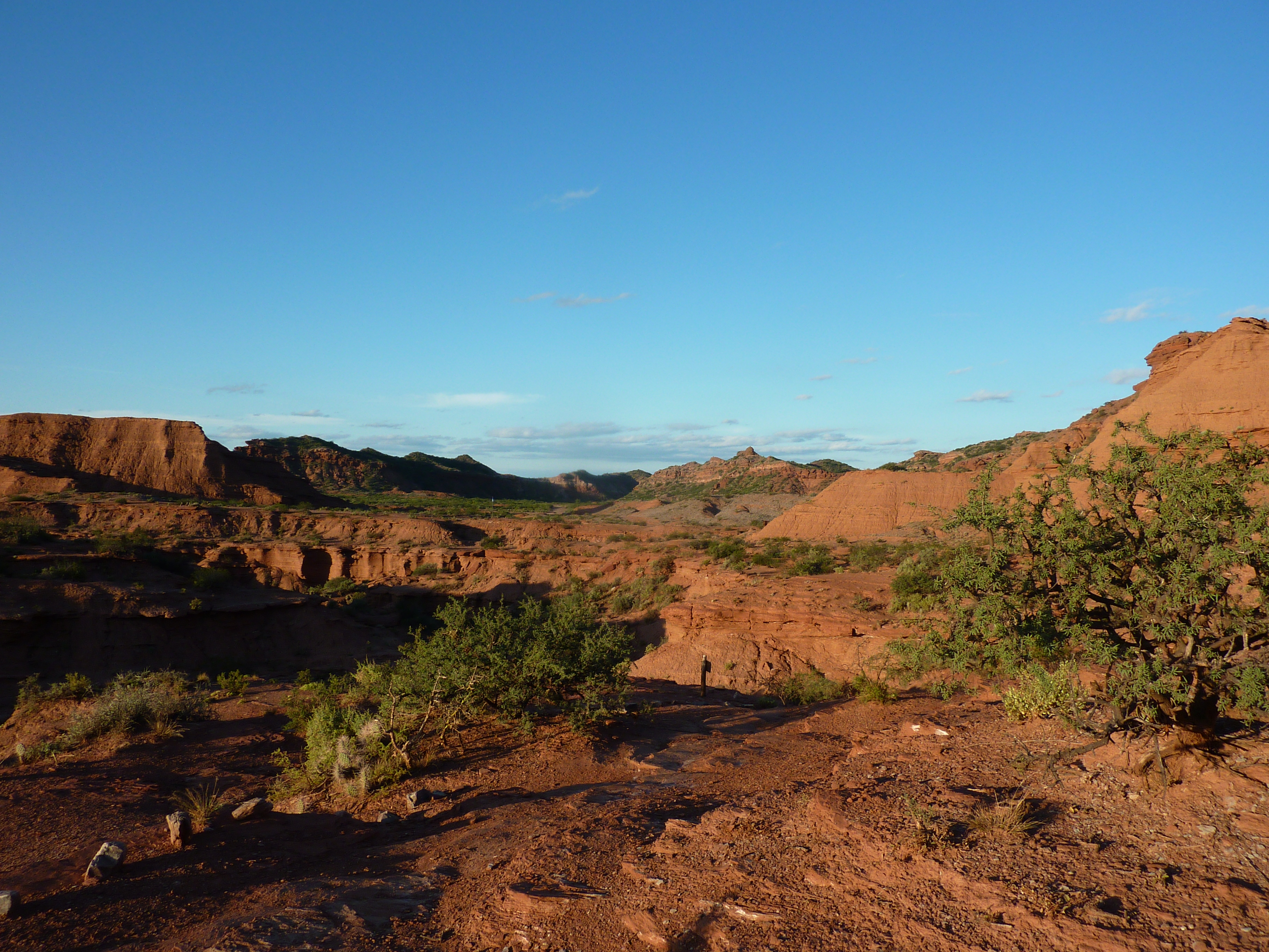 Parque Nacional Sierra de las Quijadas. We got the tent up in good time to catch the sunset